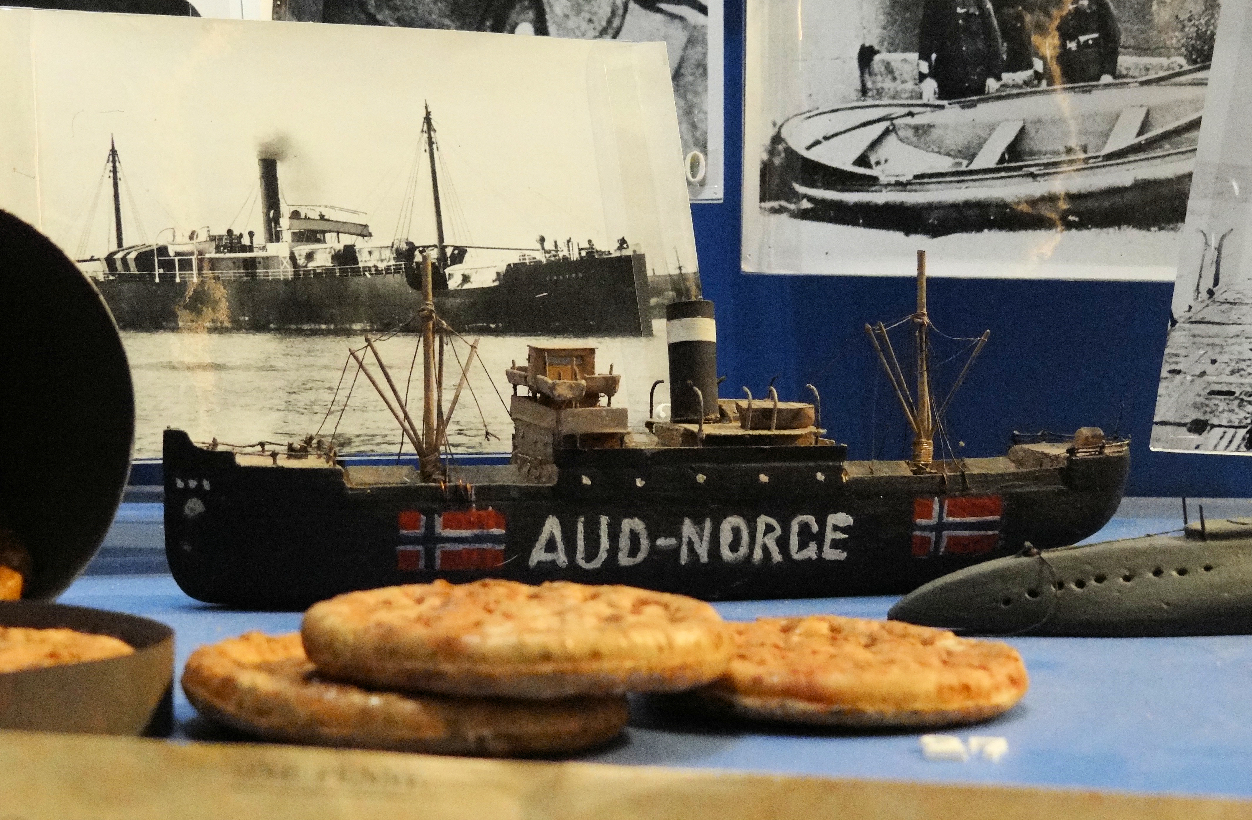 A model of the arms smuggling vessel Aud (Libau), and a photo of it from back when it was sailing as the Castro. Photographed at Cork Public Museum in 2012.